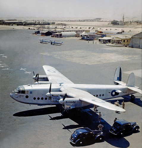 This photograph shows Avro York C.I MW173 “Zipper”. This aircraft was converted to (not built to) VIP standard for use by Air Chief Marshal Sir Keith Park GCB KBE MC* DFC RAF, as AOC Air Command South East Asia, an appointment he held from February 1945 into 1946. Although Zipper was normally based at Singapore this photograph was taken at Almaza, Cairo, Egypt shortly after the War. The two silver aircraft in the background are the two Tiger Moths of the Egyptian airline Misr Airwork.